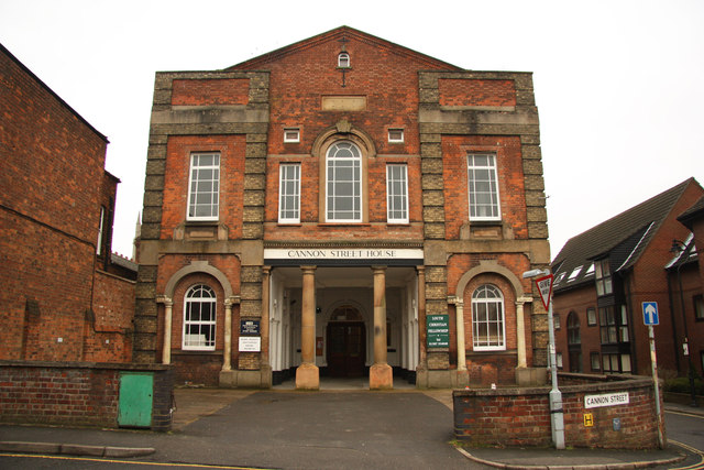 Cannon Street House, Cannongate Louth. Originally the General Baptist Chapel, which was enlarged by Pearson Belly in in 1850/1 as a Sunday School